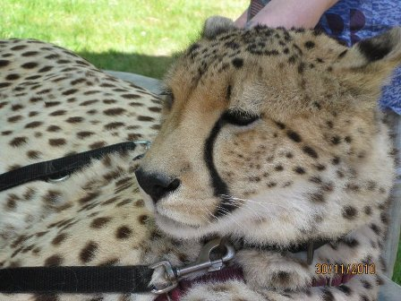 Charlie, a cheetah participating in Wellington Zoo's Close Encounters program.